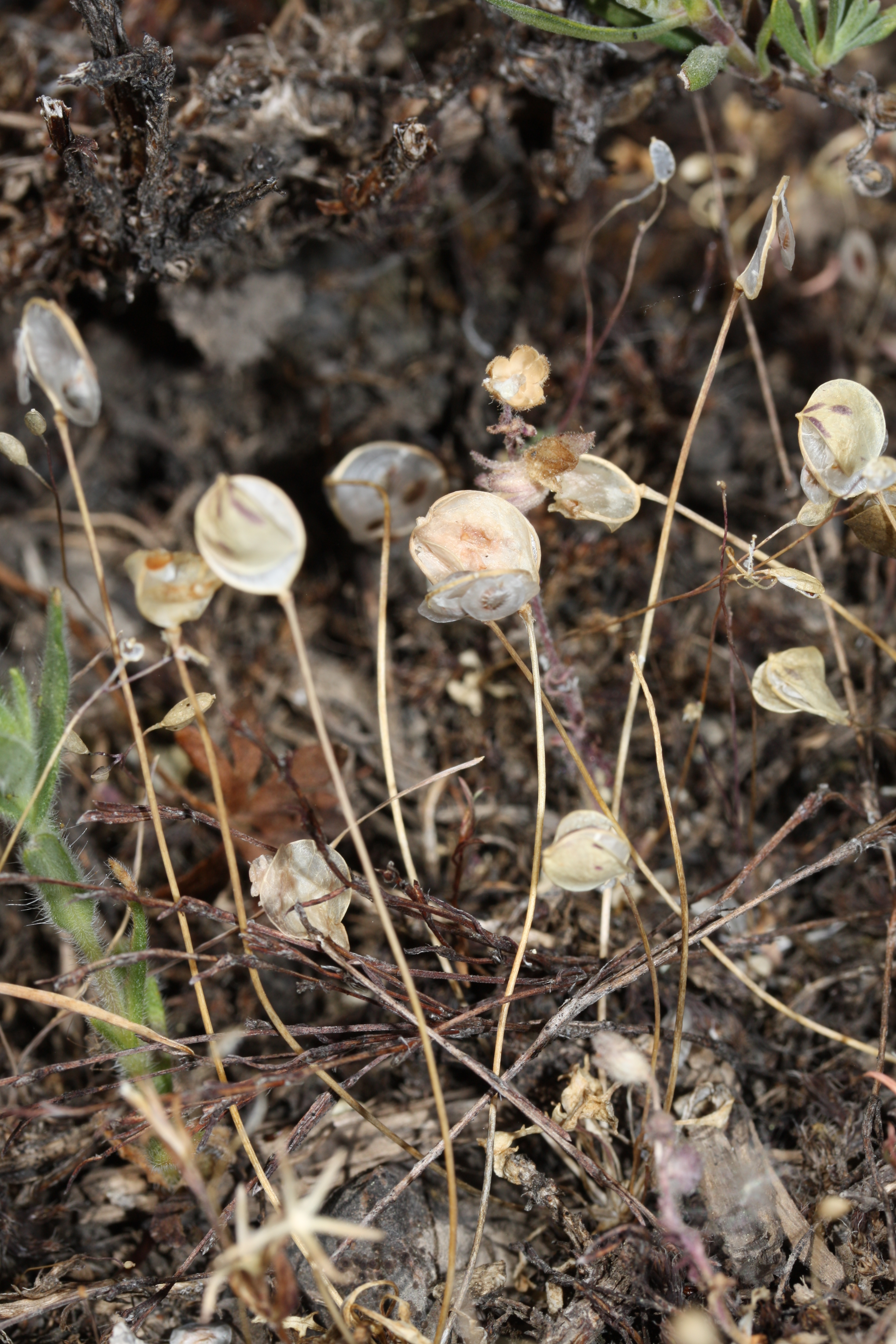 Oldstem Idahoa, Scalepod, Flatpod